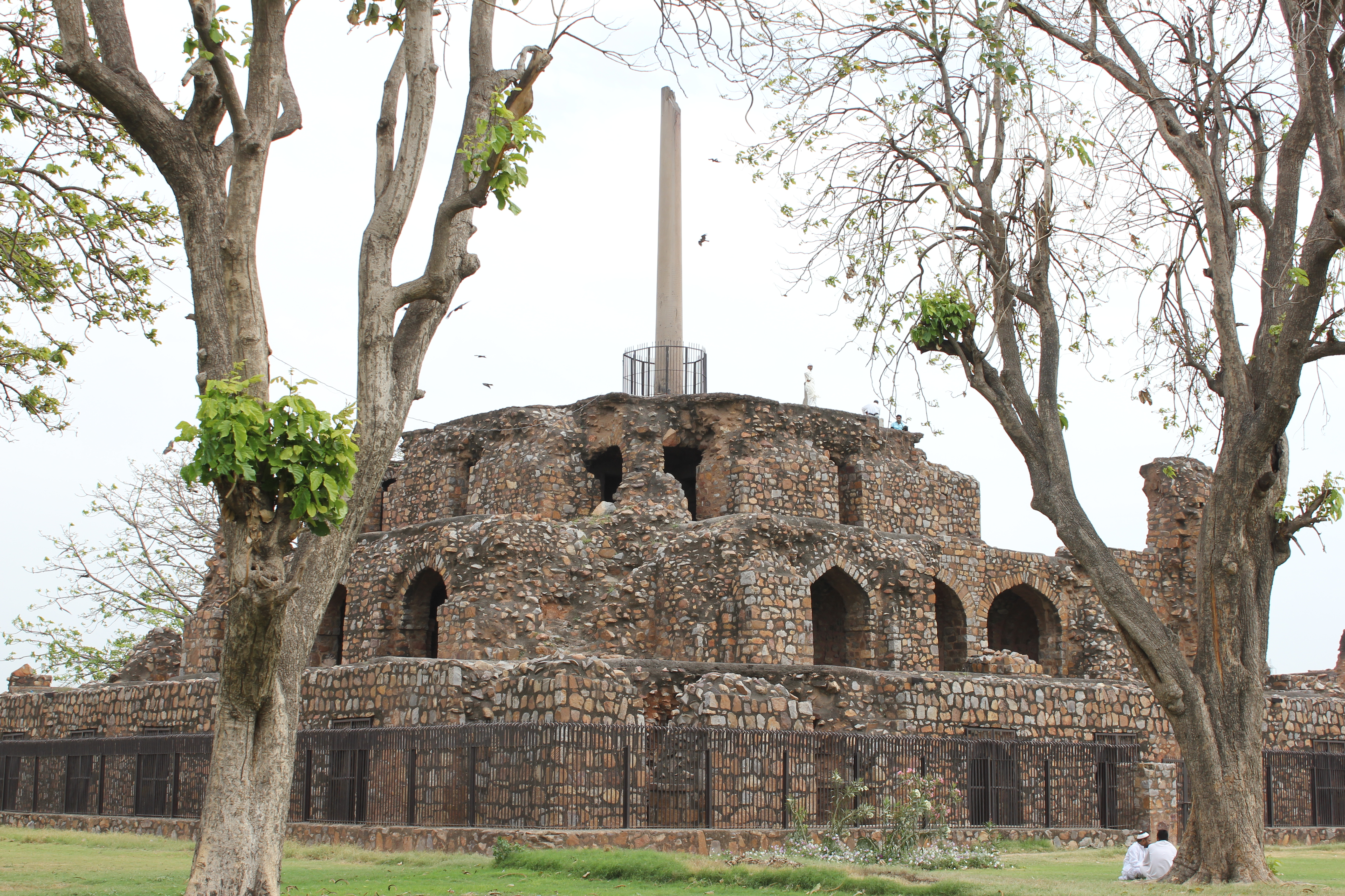 This is the Ashoka Pillar at Feroze shah Kotla